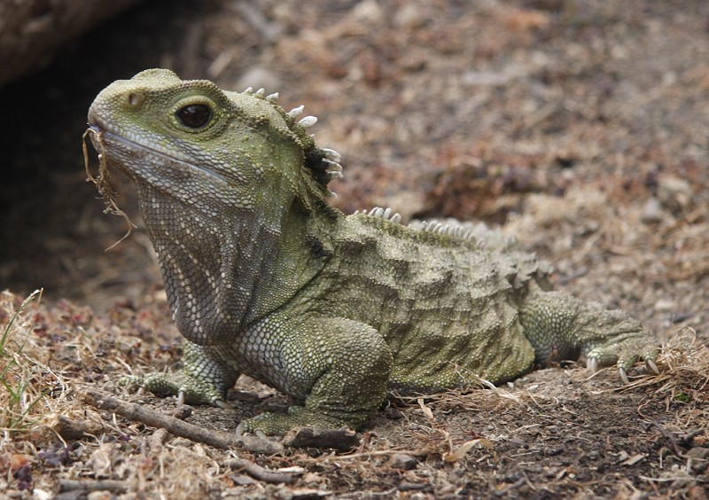 Tuatara in Invercargill (New Zealand). His name is Henry.